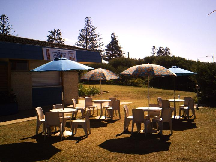 Photo of the North Palm Beach Surf and Lifesaving Club, north of Sydney, Australia. The exterior of the surf club is used as a set in Home and Away. Photo taken by cls14 in August 2006.